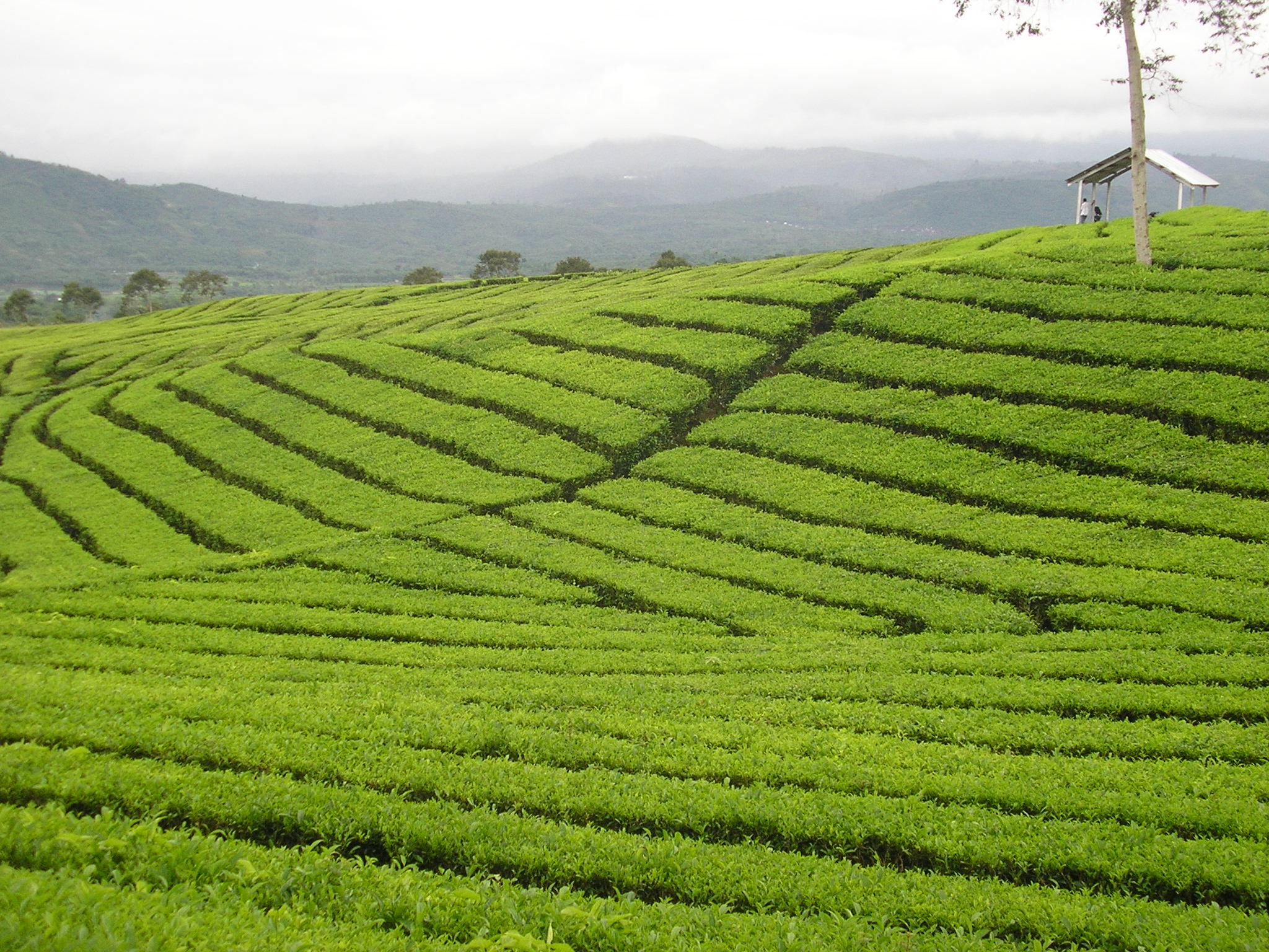 Tea Plantation surrounding Dempo Mountain, South Sumatra (Indonesia)PC230345